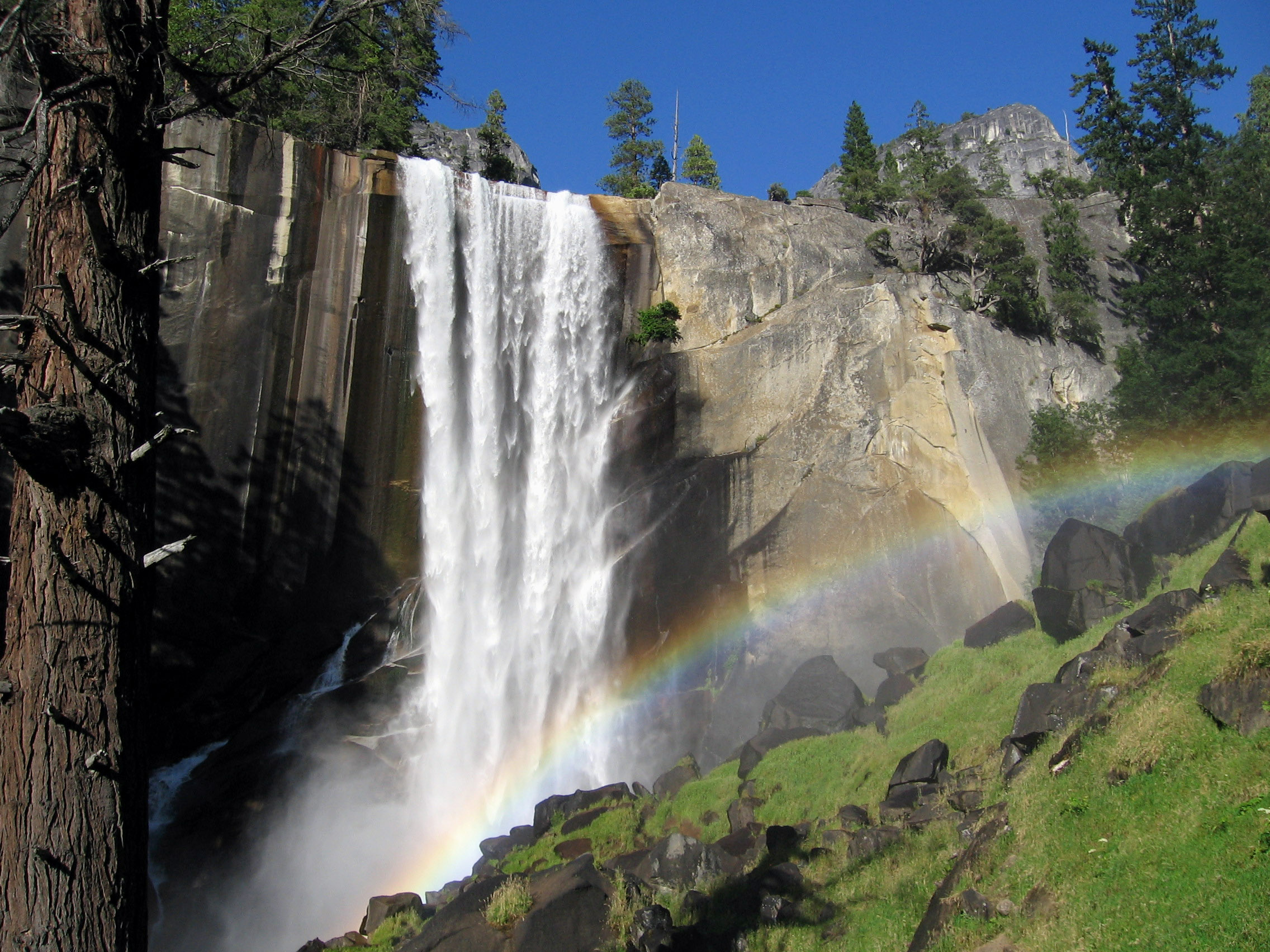 Vernal Fall is a large waterfall on the Merced River just downstream of Nevada Fall in Yosemite National Park, USA. It is 317 feet (97 m) high.